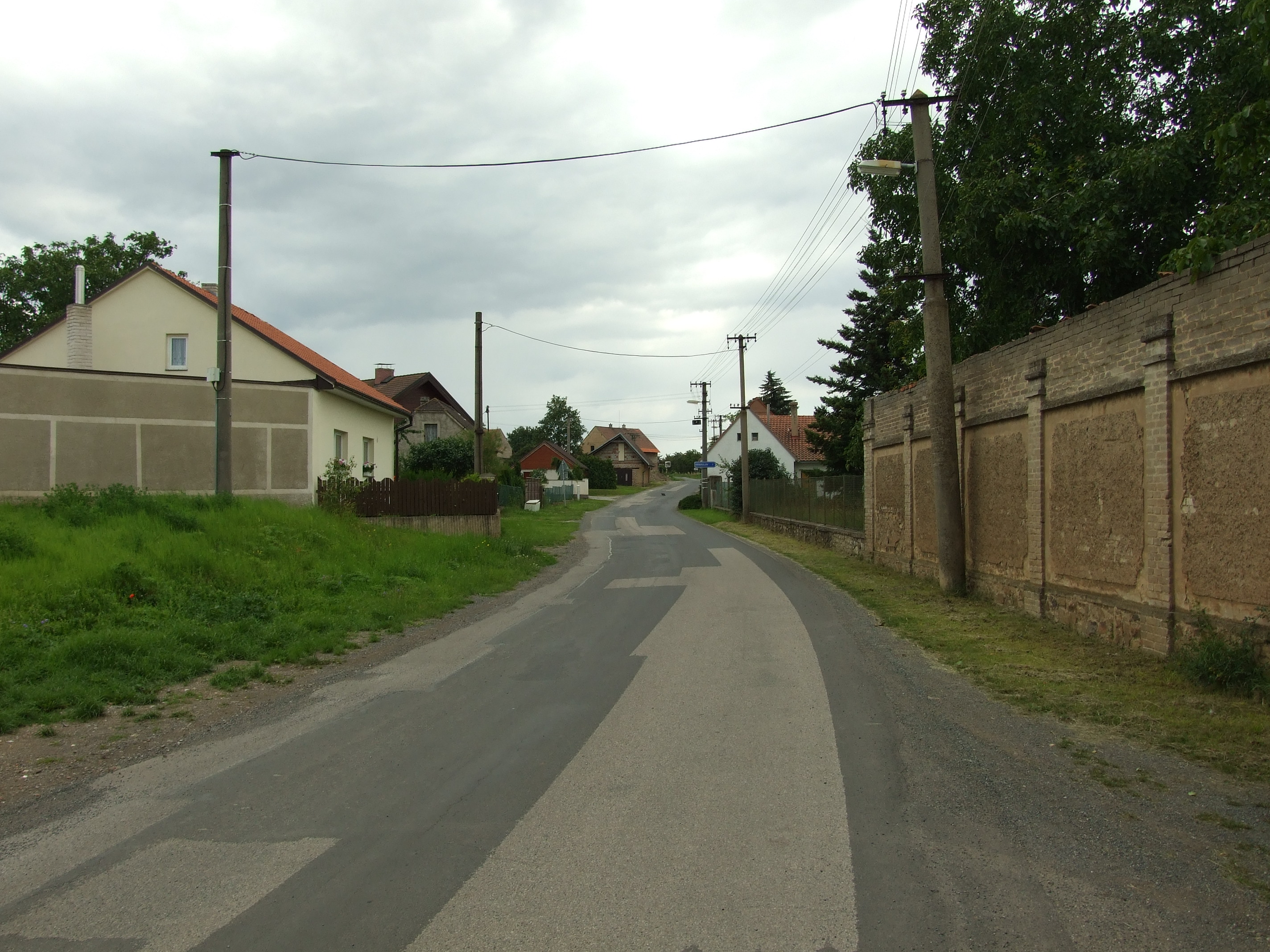 Town of Mezouň and surrounding countryside in Central Bohemian Region situated close to Prague, CZhelp